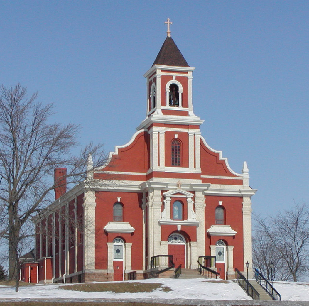 By William Wesen on February 23, en:2008 - released to the Public Domain Category:Images of Minnesota - should be in Commons Category:Registered Historic Places in Minnesota